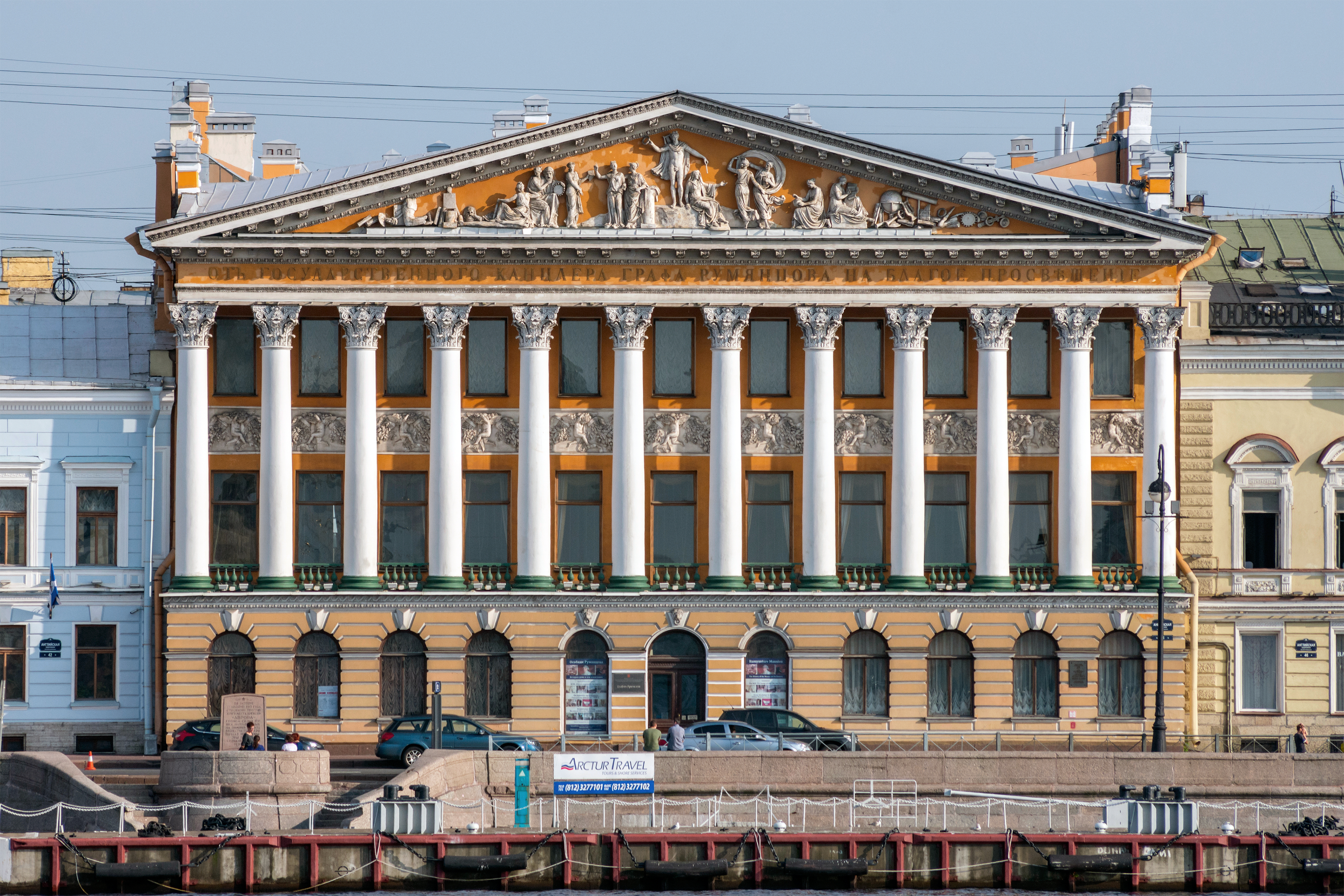 Angliyskaya Embankment in Saint Petersburg. Rumyantsev's Mansion